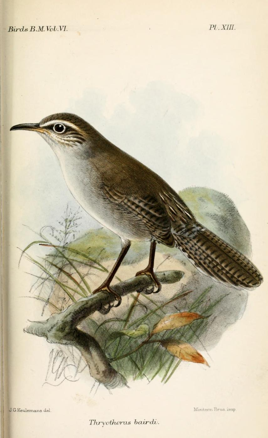 Thryothorus bairdi = Thryomanes bewickii bairdi, Bewick's Wren ssp.